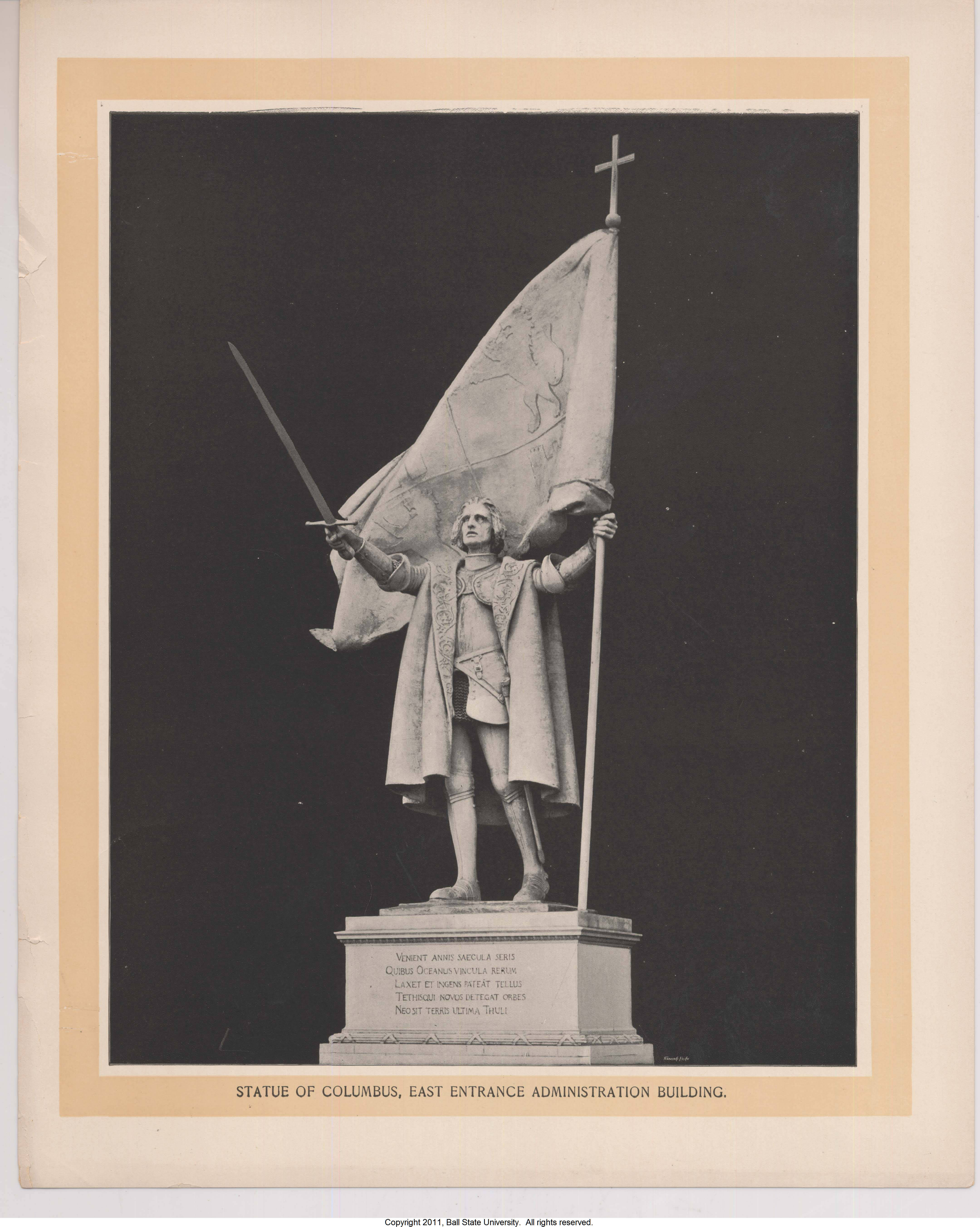 Halftone photomechanical print from White City (as it was) and/or Jackson's Famous Pictures of the World's Fair, two books of plates of official images taken by William Henry Jackson for the 1893 World's Columbian Exposition.